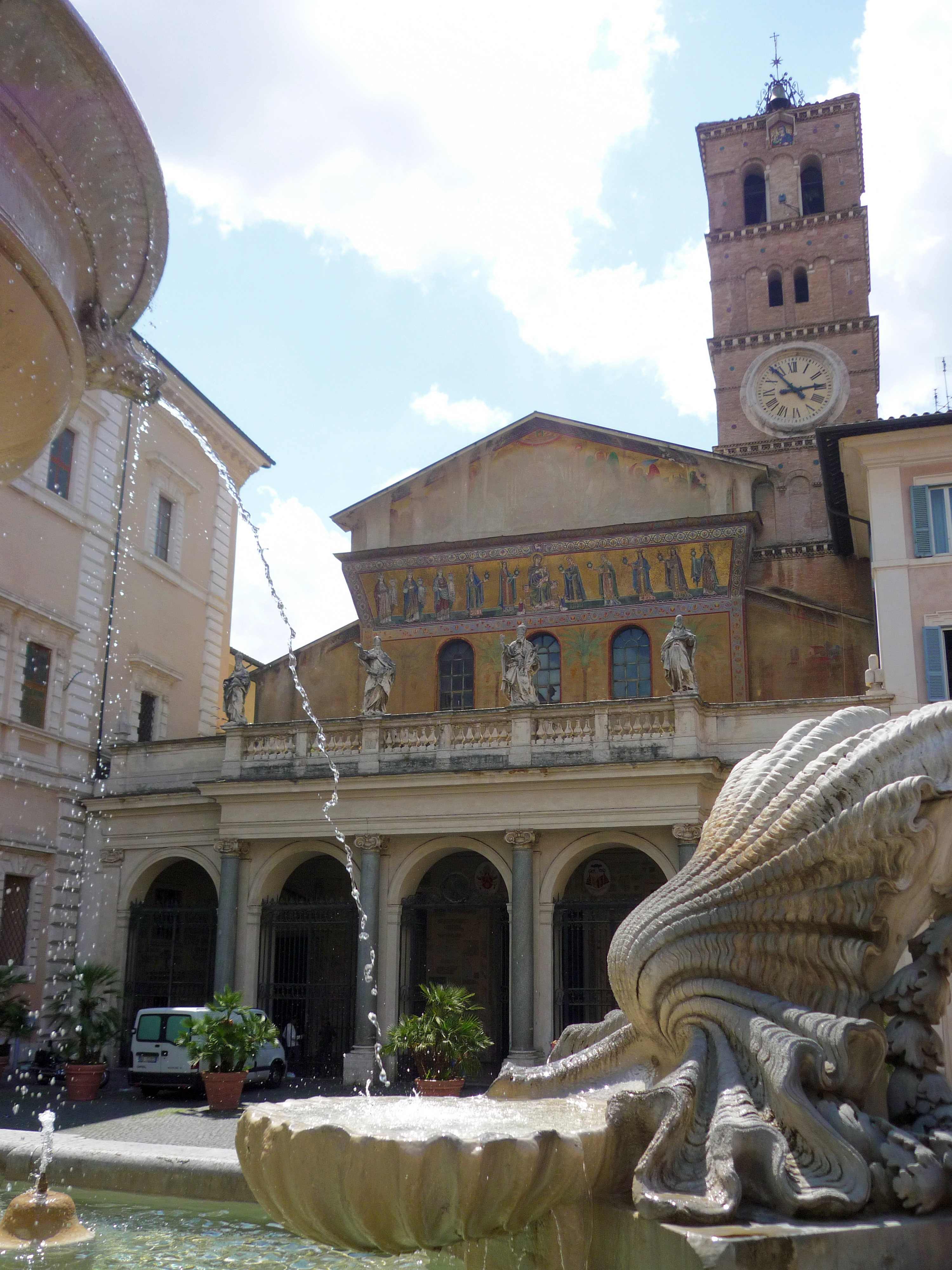 Basilica of Our Lady's in Trastevere, Rome (exterior)